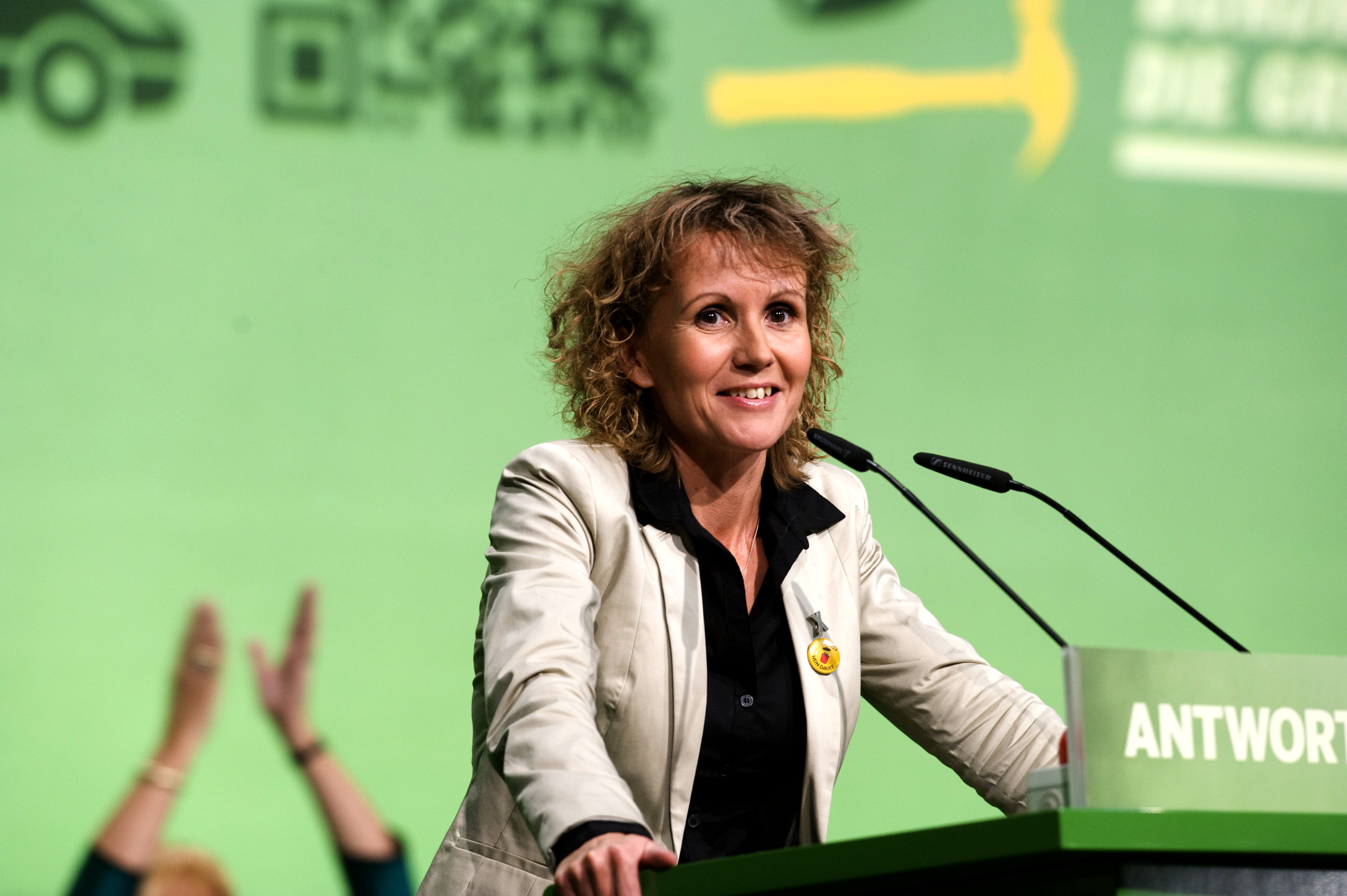 Steffi Lemke, political general secretary of the German Party Alliance '90/The Greens